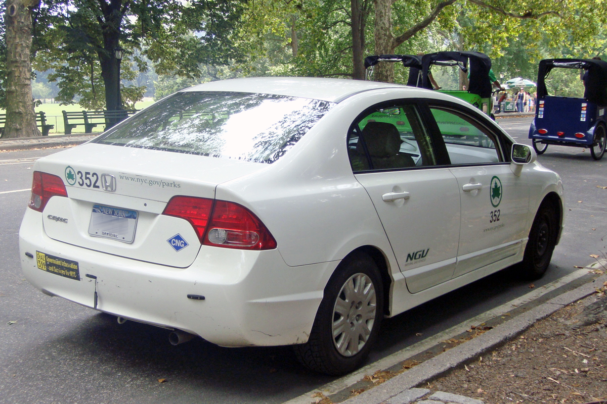 New York City Parks Service Honda Civic GX (natual gas vehicle), Central Park, Manhattan